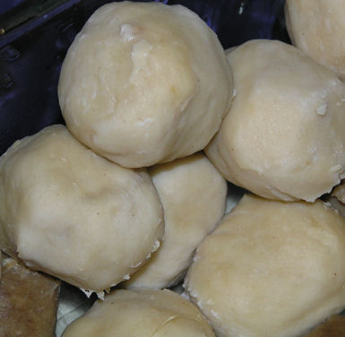 Fishball fish ball